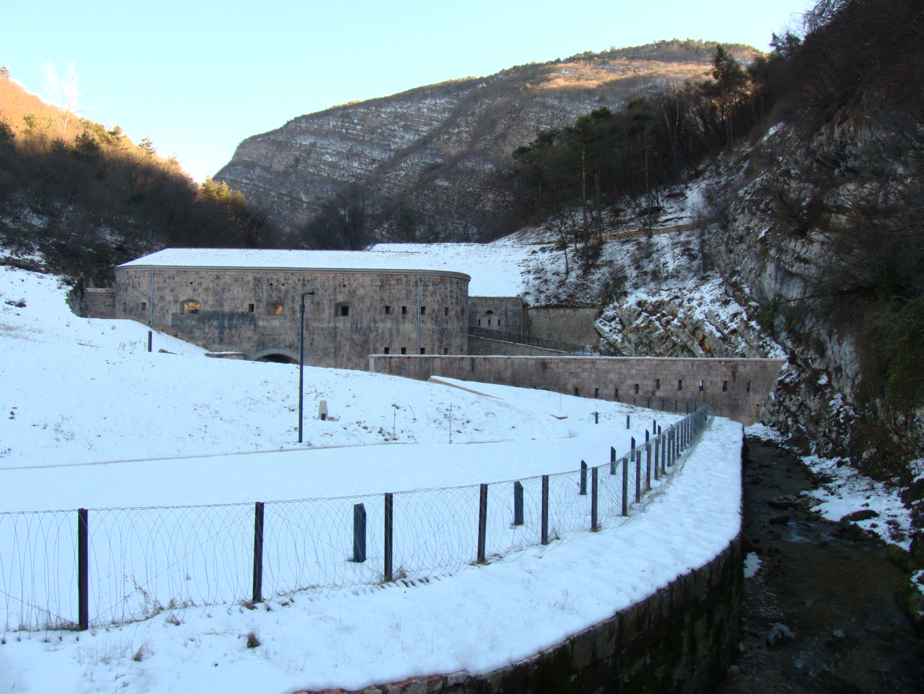 Trento (Italy): Forte Bus de Vela viewed from northwest